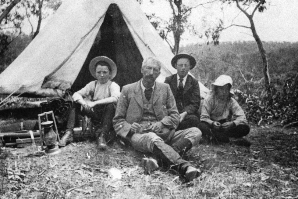 D. J. Byard of Hahndorf, South Australia in front of tent on a hill accompanied by three Boy Scouts: Prichard Hall; A. Temme; and Frank Byard.